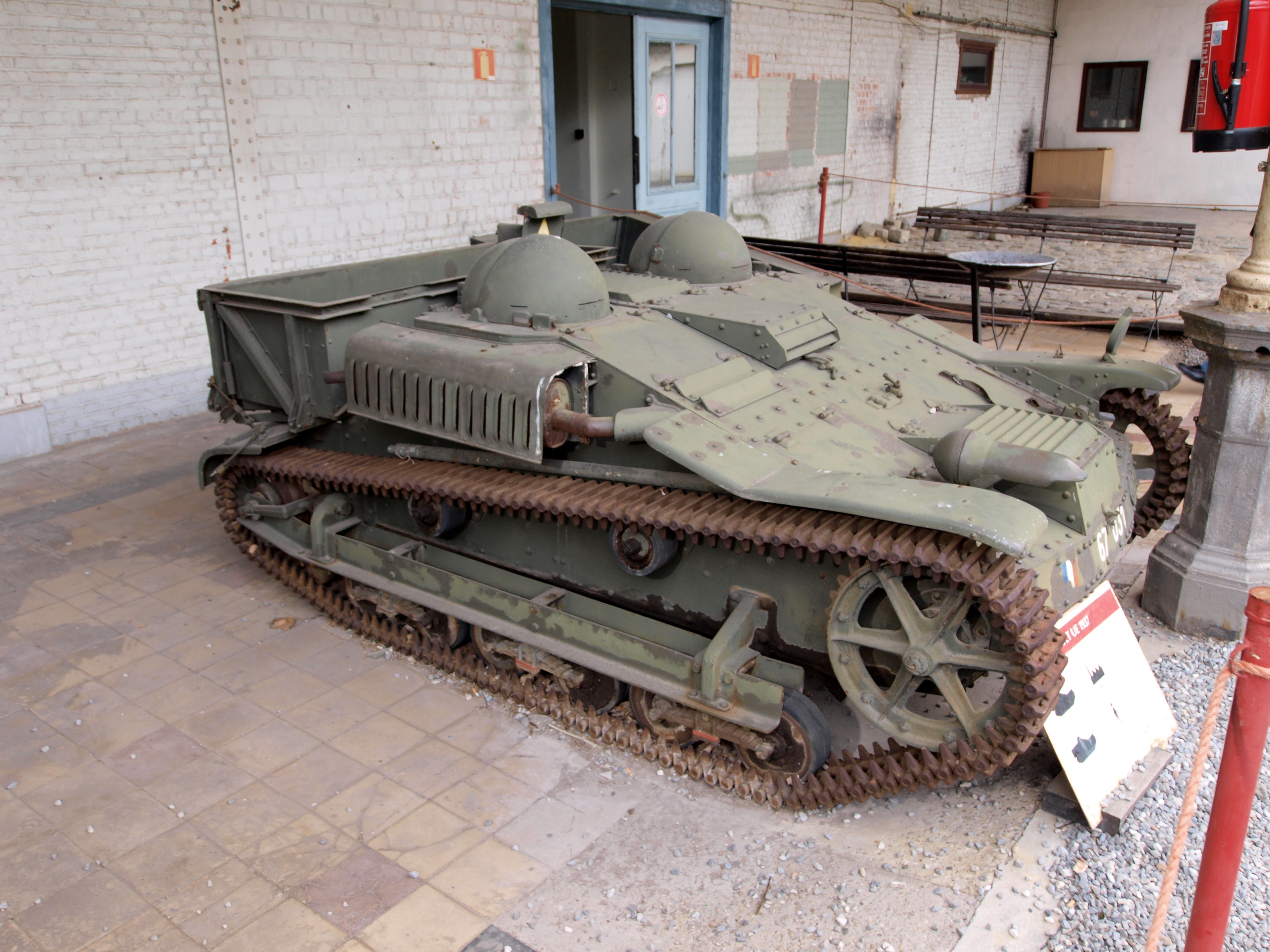 Pre WWII Renault UE at the Royal Museum of the Armed Forces and of Military History, Bruxelles, Belgium.